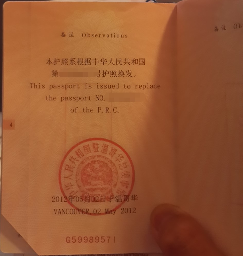 Observations Page of the Chinese Ordinary Passport.